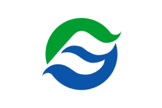 Flag of Fujikawa Yamanashi